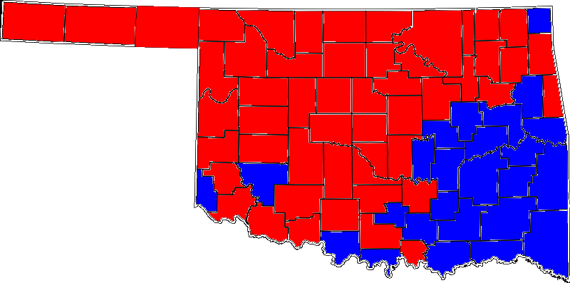 2002 US Senate election in Oklahoma results by county.